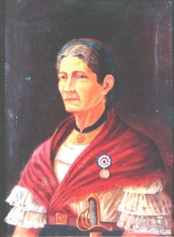 Painting of Francisca Carrasco Jiménez (Pancha Carrasco) 1826-1890 hanging in the Juan Santamaria Cultural-Historical Museum in Alajuela, Costa Rica.